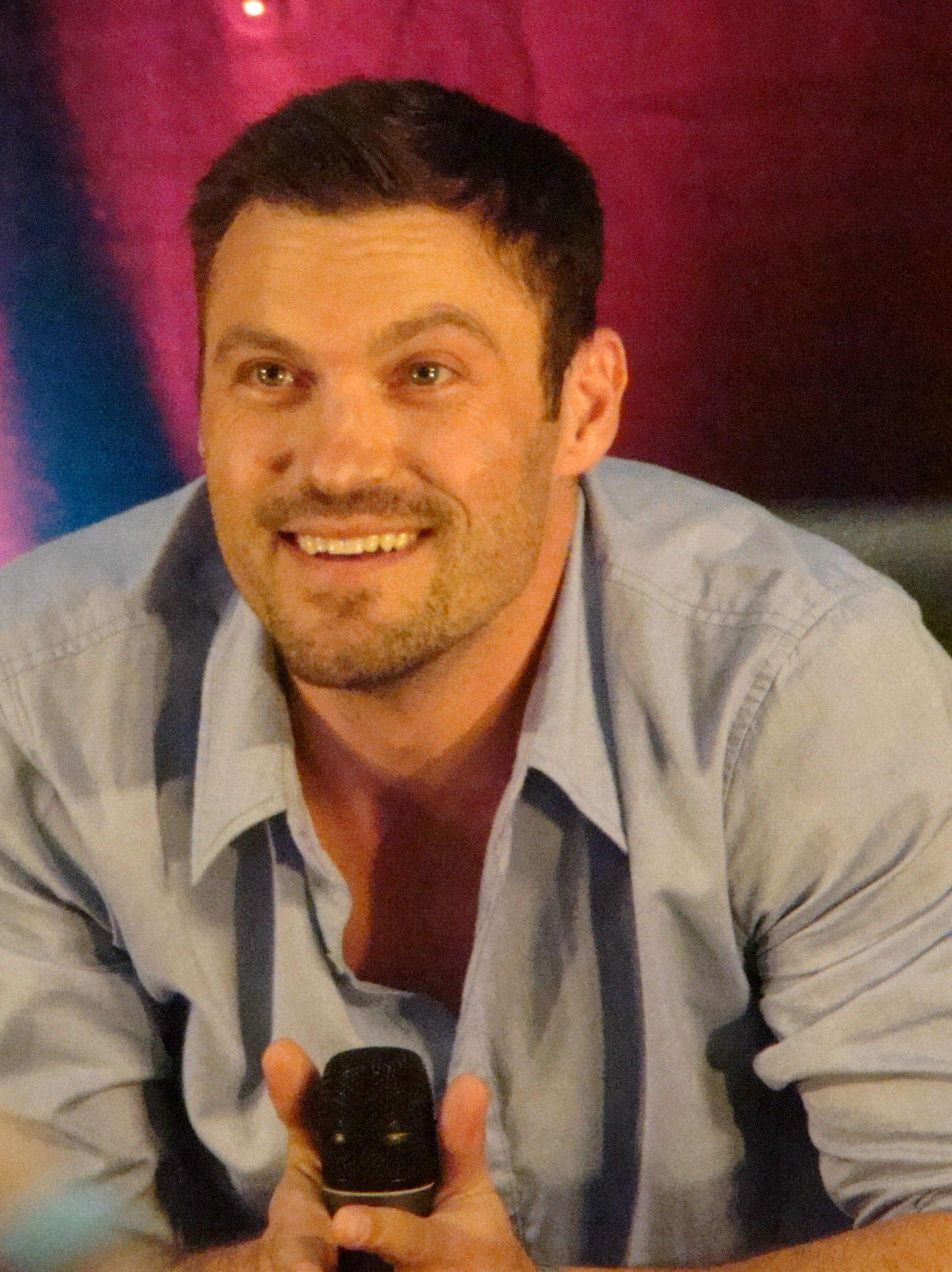 Brian Austin Green